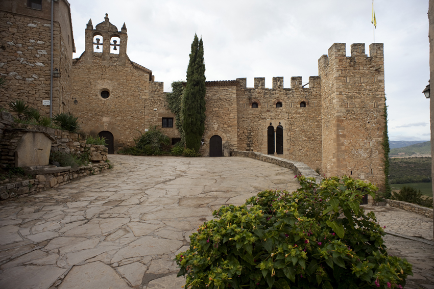 Montsonís village, and its castle.